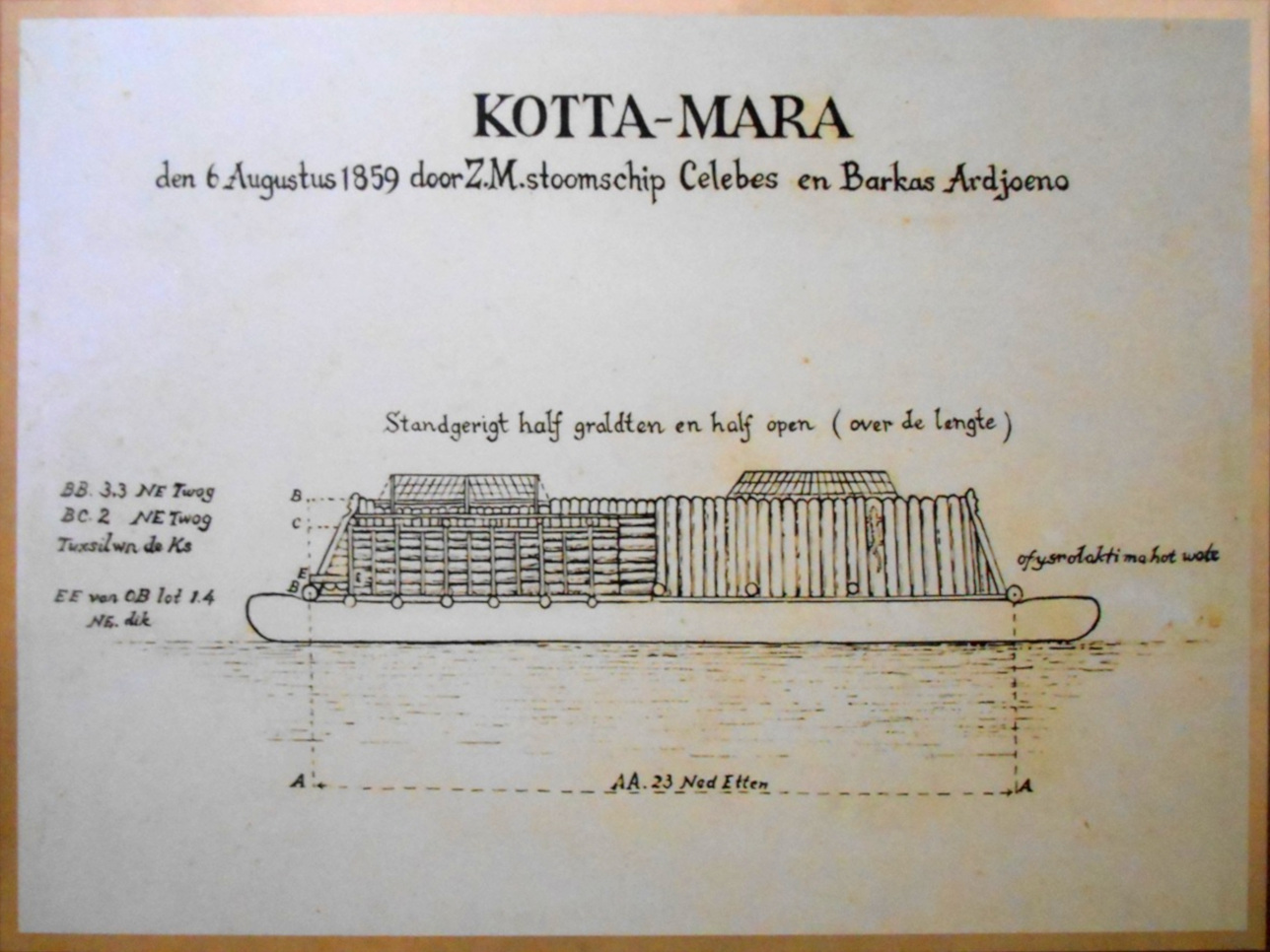 A sketch of the kotta mara encountered in 6 August 1859 by Z.M. steamship Celebes and Barkas Ardjoeno, showing the dimensions.